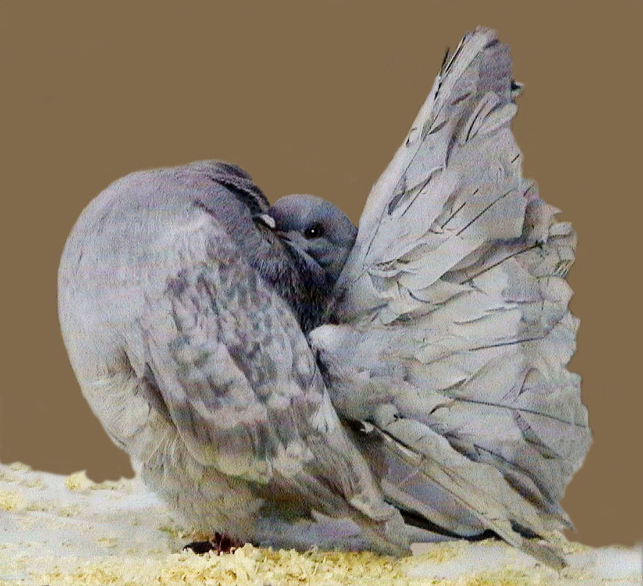 Fantail (Silver Chequer)